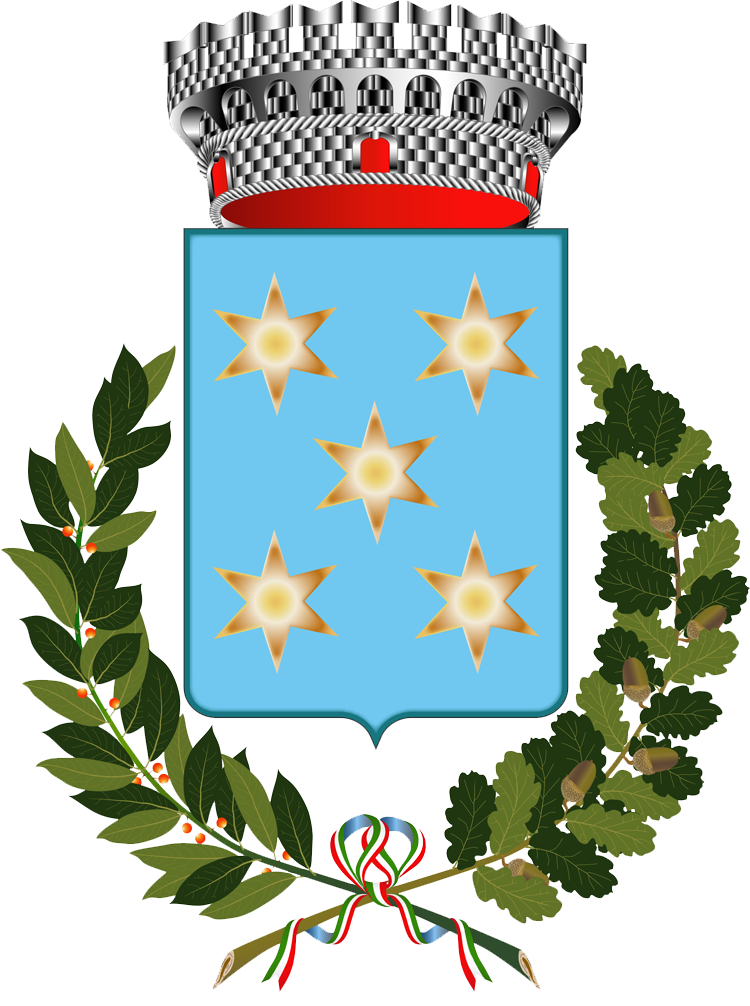 Coat of arms of Ailano, Italy